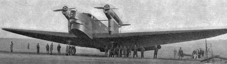 Potez 41 photo from L'Aerophile February 1934